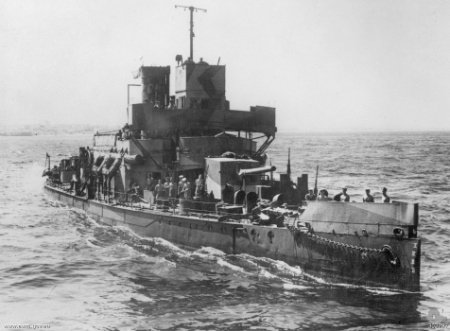 AWM caption : "MEDITERRANEAN SEA. STARBOARD BOW VIEW OF THE RIVER GUNBOAT HMS Aphis. IN ADDITION TO THE 6 INCH GUN THREE SINGLE 20MM OERLIKON AA GUNS HAVE BEEN MOUNTED ON HER FORECASTLE."